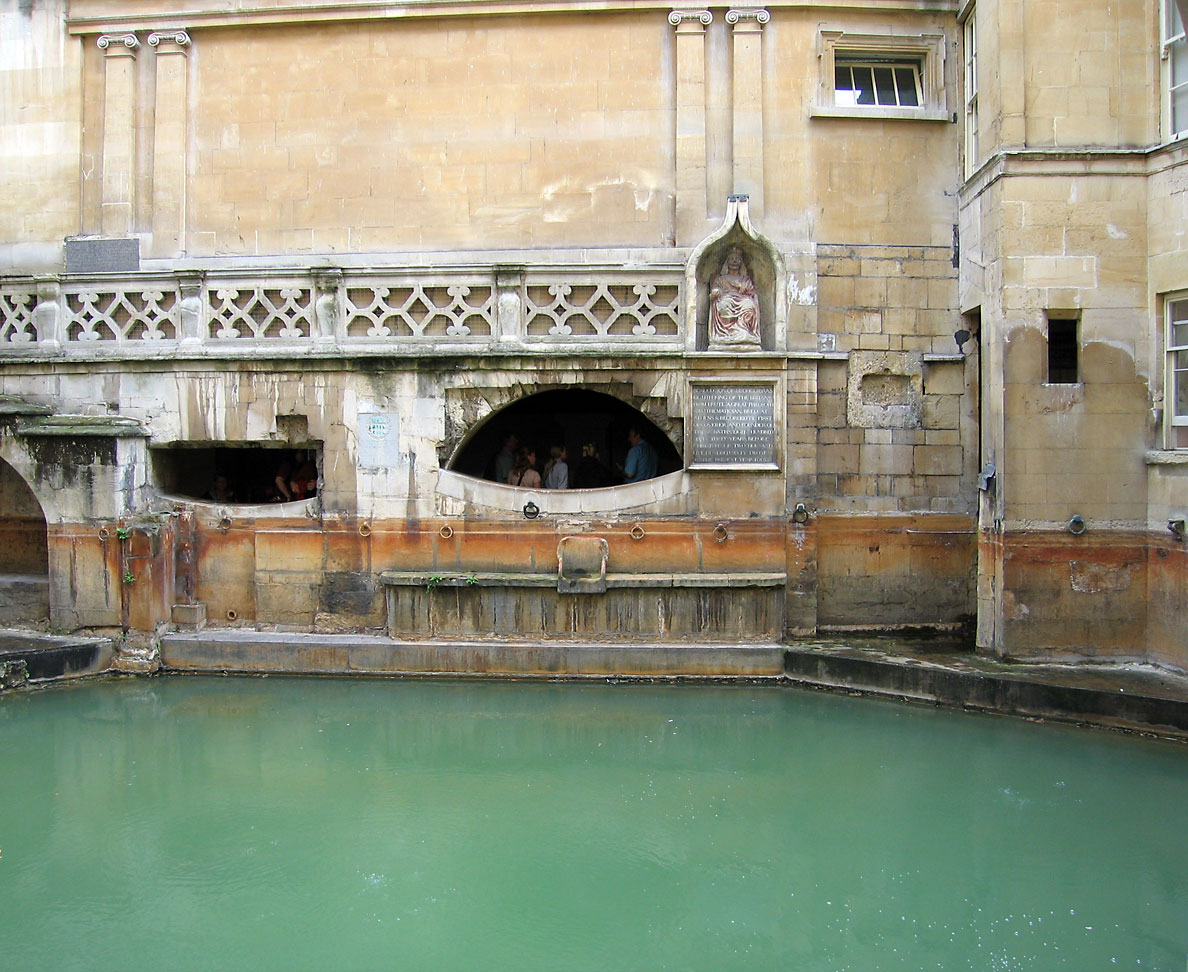 Roman Baths, Bath. The 'sacred pool' of Sulis is the source of the geothermal spring where the hot water rises before being channelled to feed the other bathing rooms. Keywords: Bath, sacred pool, thermal spring, source